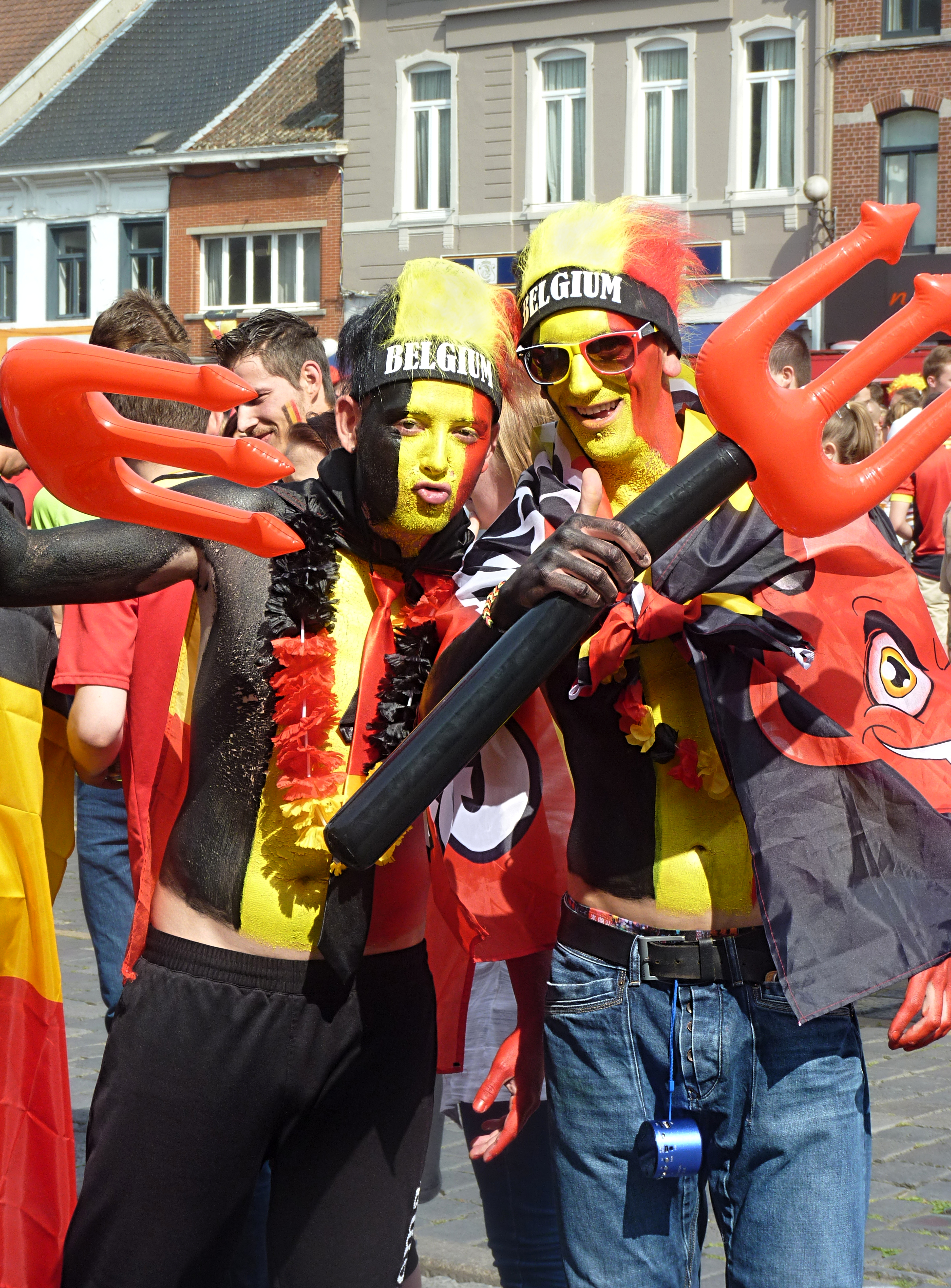 Supporters of the Belgian national football team, photo taken on the town square of Mouscron, Belgium before the match Belgium - Russia of the world cup 2014 broadcast on large screen.